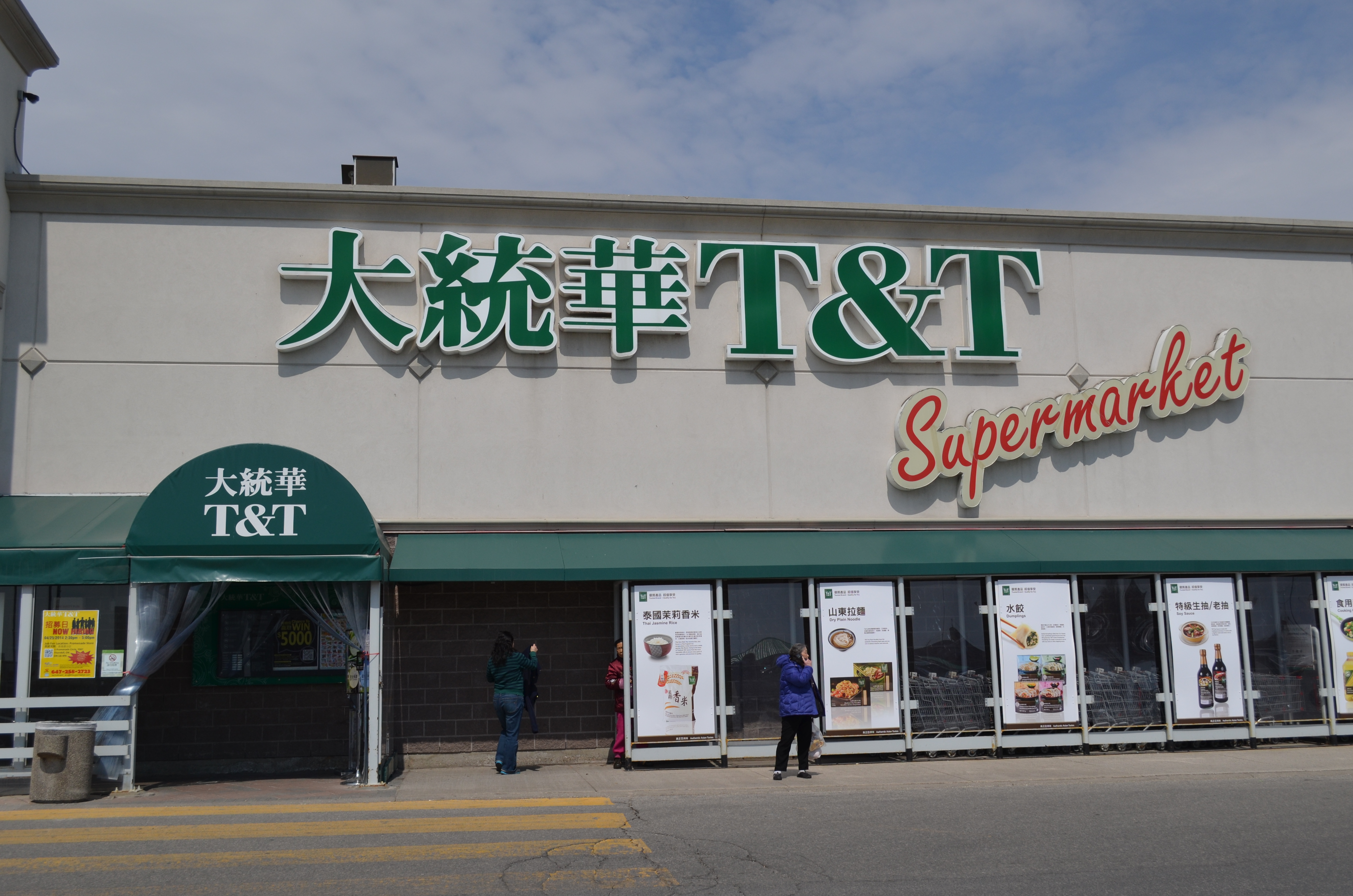 T & T at Warden Centre in Markham